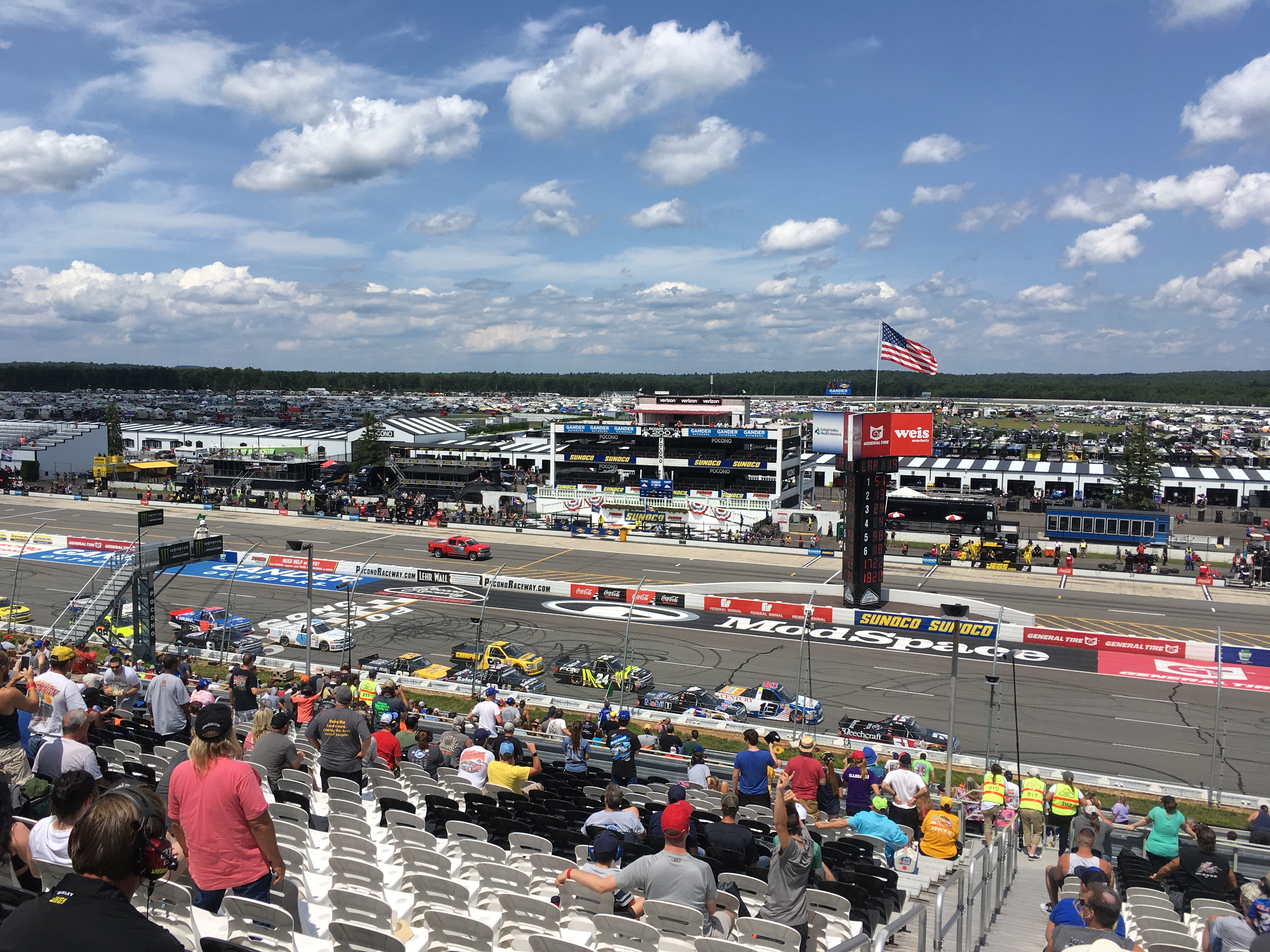 The 2018 Gander Outdoors 150 at Pocono Raceway viewed from the frontstretch. Kyle Busch (#51) leads Myatt Snider (#13) and the rest of the field at the beginning of the second stage.